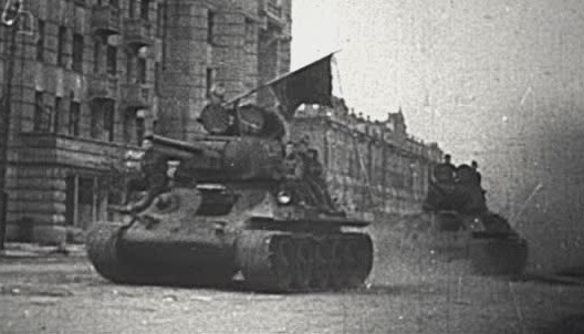 Tanks T-34 ride by Moskovskaya Street in liberated Orel.